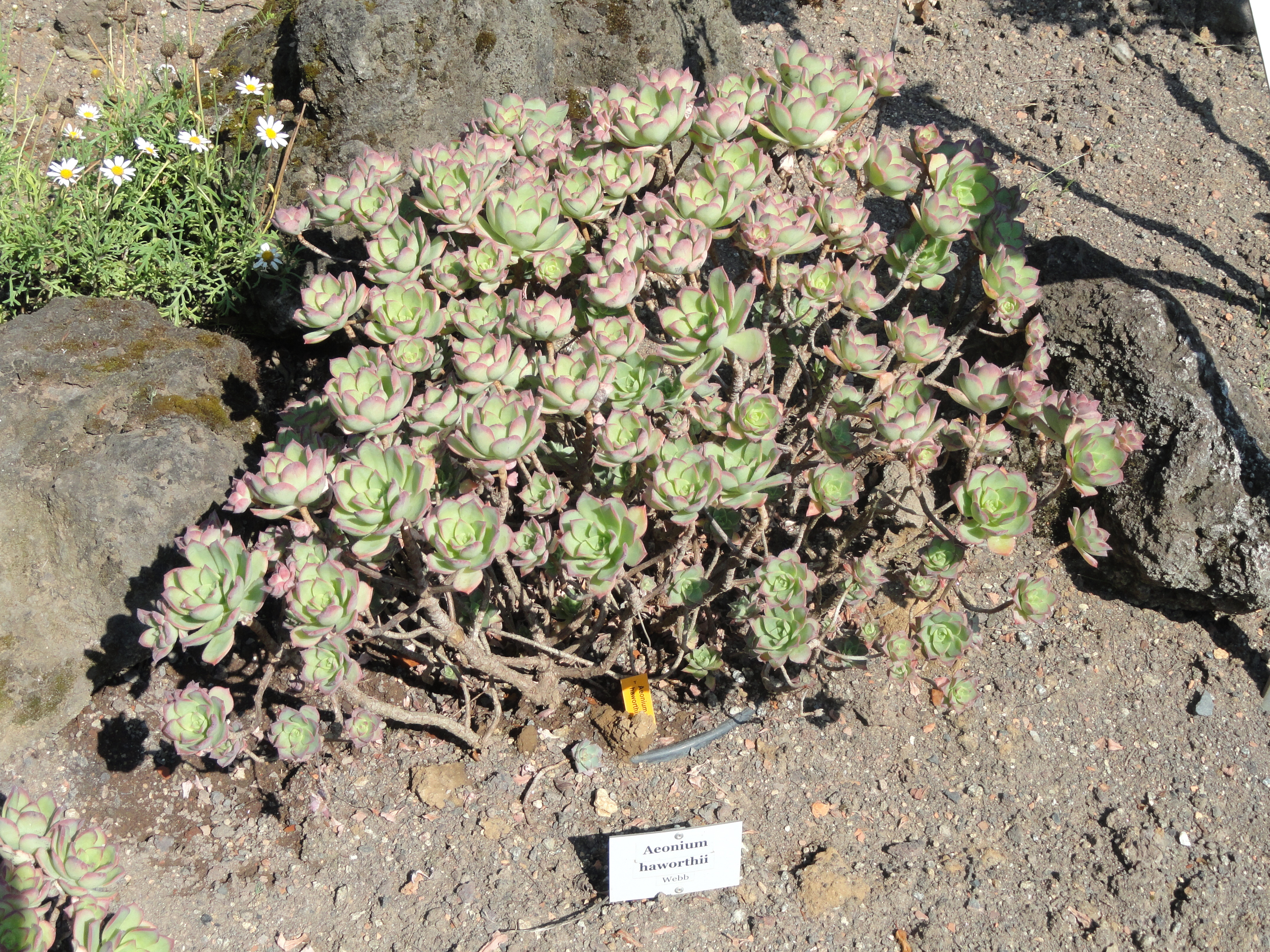 Specimen in the Botanischer Garten, Frankfurt am Main, Germany.